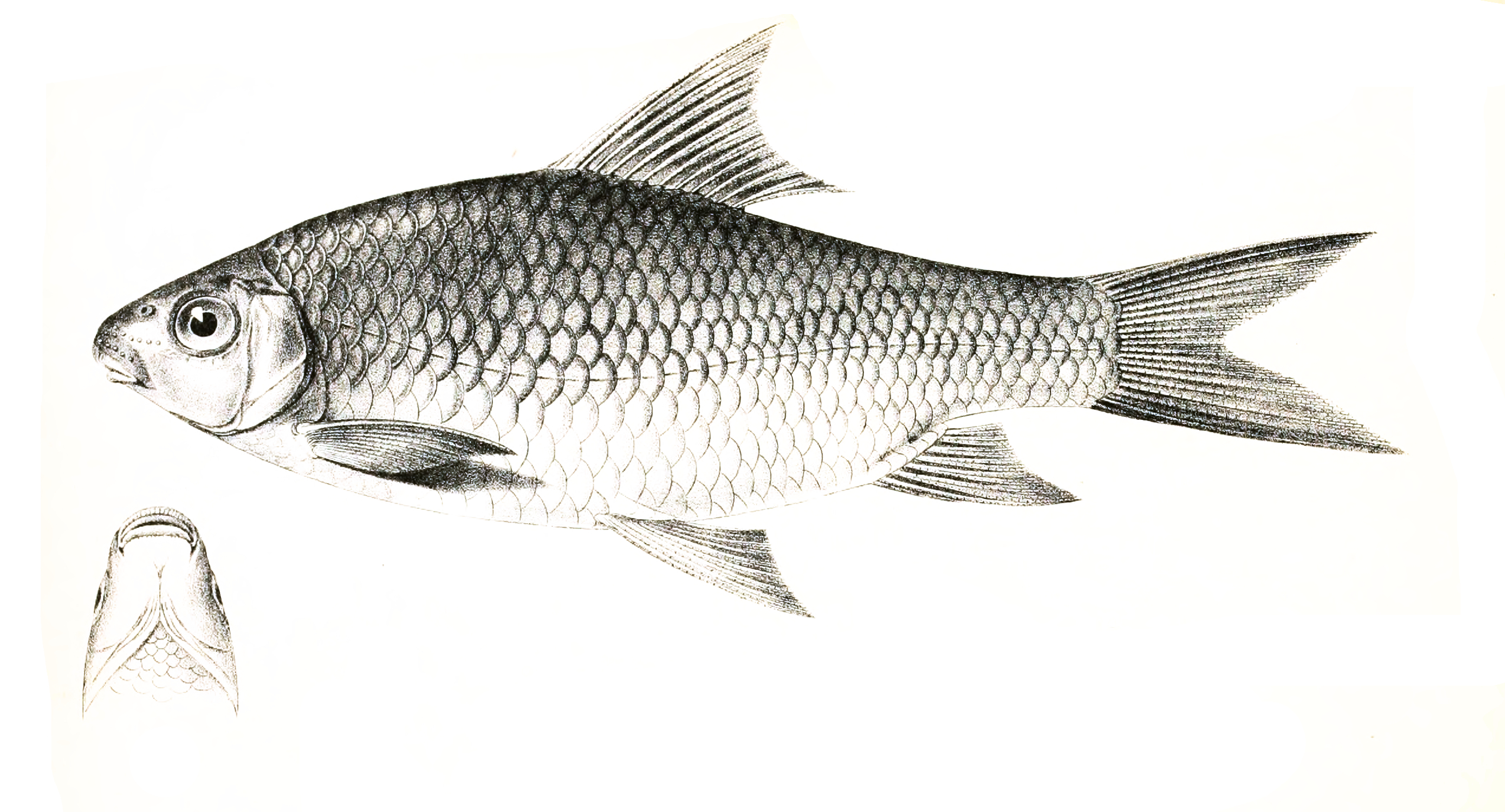 The species names / identity need verification - original names from plate are included here. The original plates showed the fishes facing right and have been flipped here. Scaphiodon thomassi